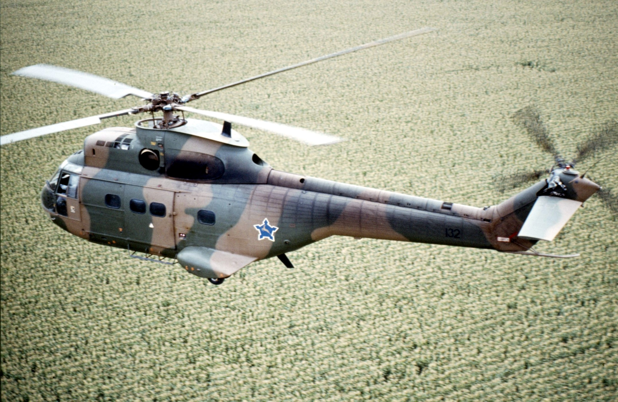 Puma no. 132 over mielies around CFS Dunnottar